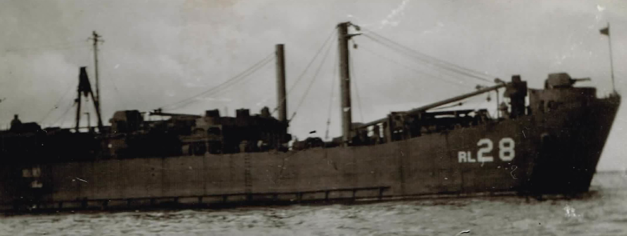 The USS Typhon (ARL-28); Photo taken by my grandfather, George Groeschl.